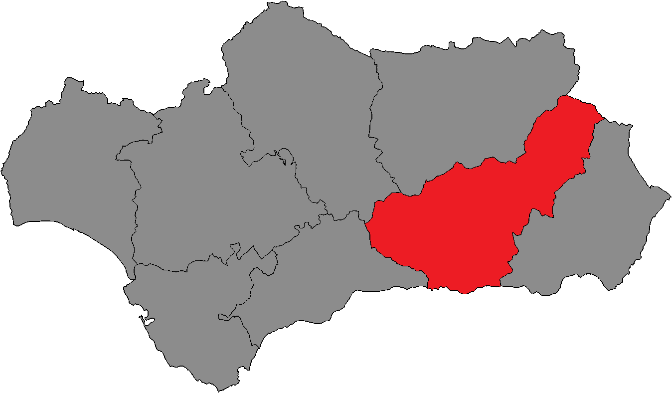 Andalusian Parliament district of Granada.